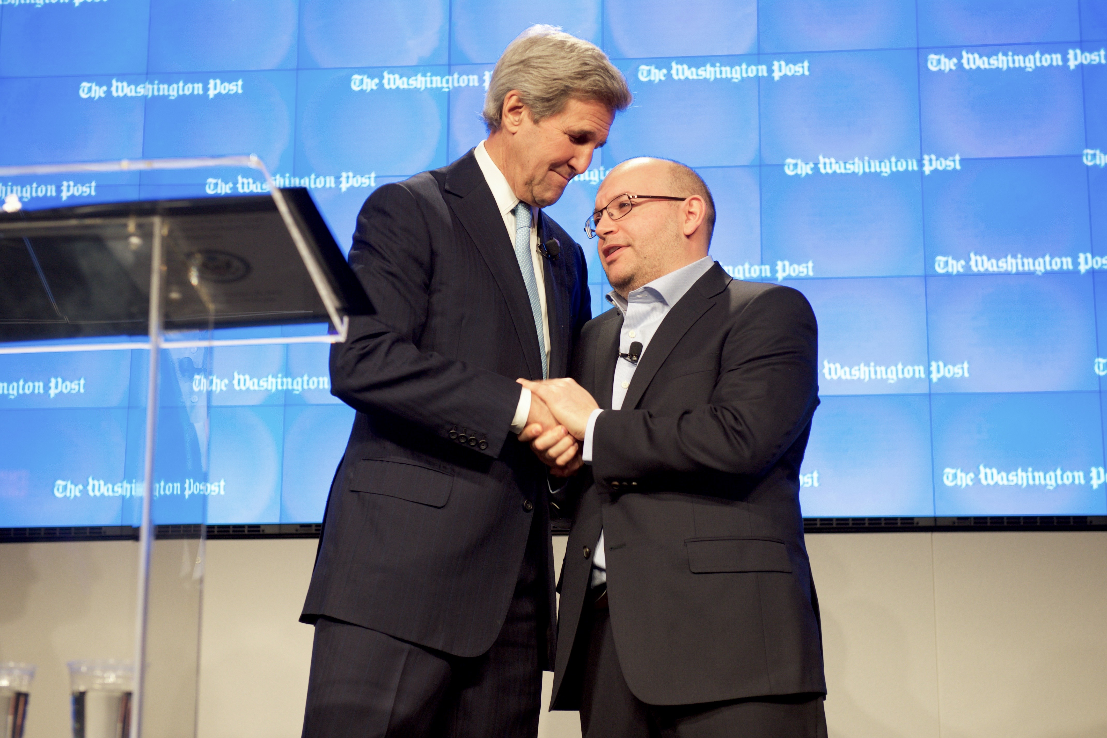 U.S. Secretary of State John Kerry clasps hands with Washington Post reporter Jason Rezaian - who he worked to free after he was unjustly held in Iran for 18 months - after he addressed a ceremony on January 28, 2016, to dedicate the new Post headquarters in Washington, D.C. [State Department photo/ Public Domain]